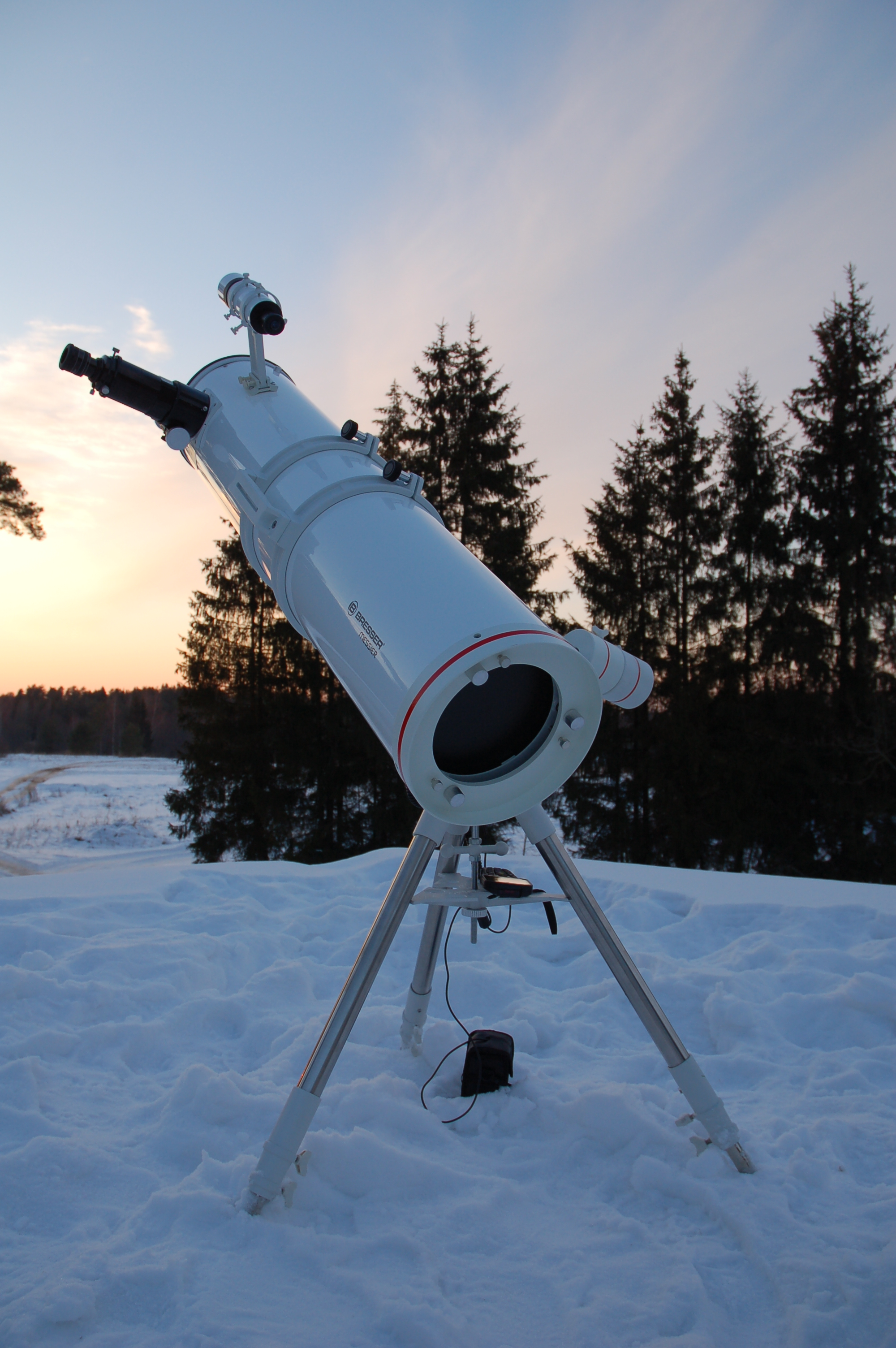 Telescope of Tõrva astronomy club